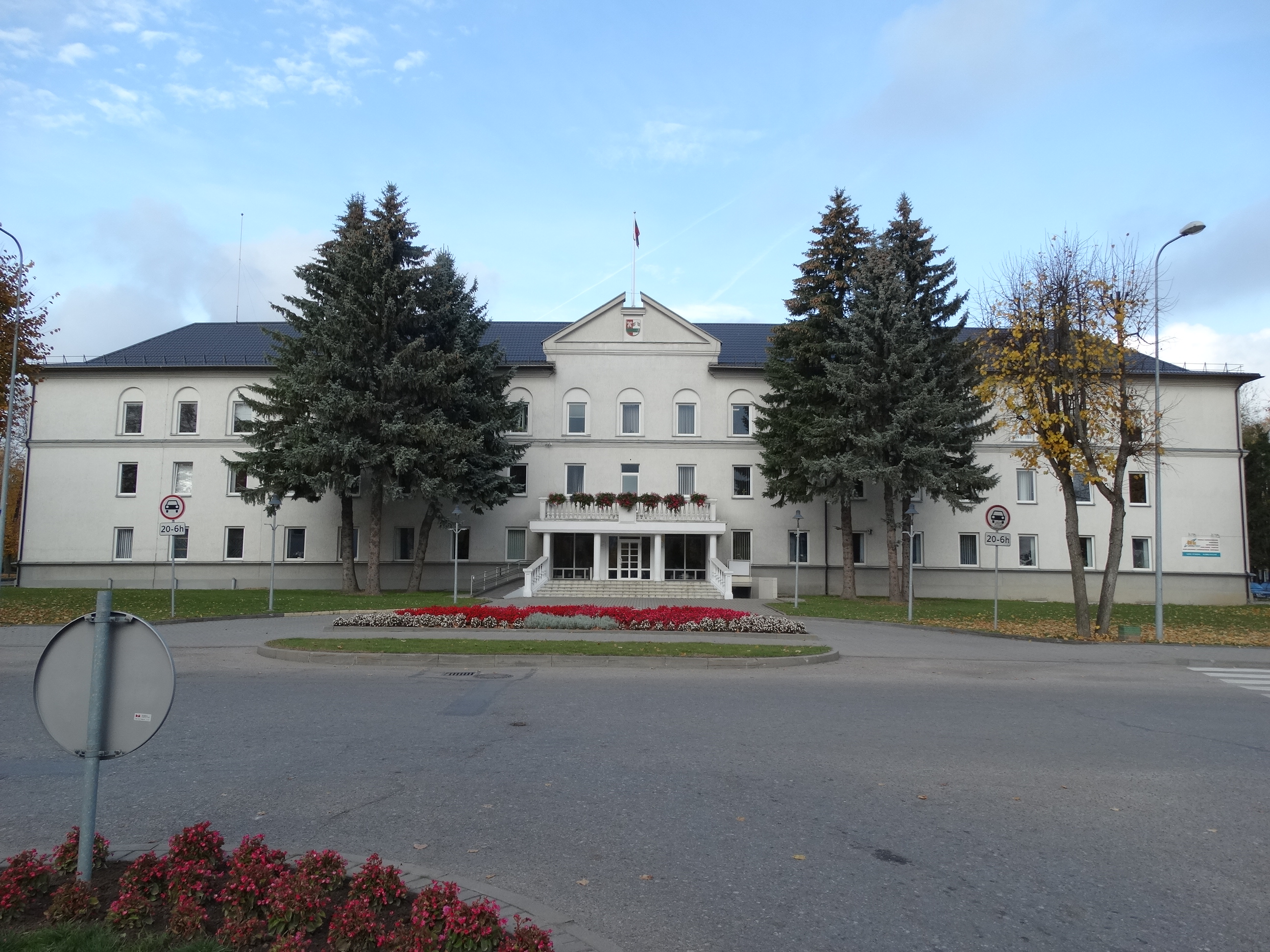 Municipality, Šakiai, Lithuania